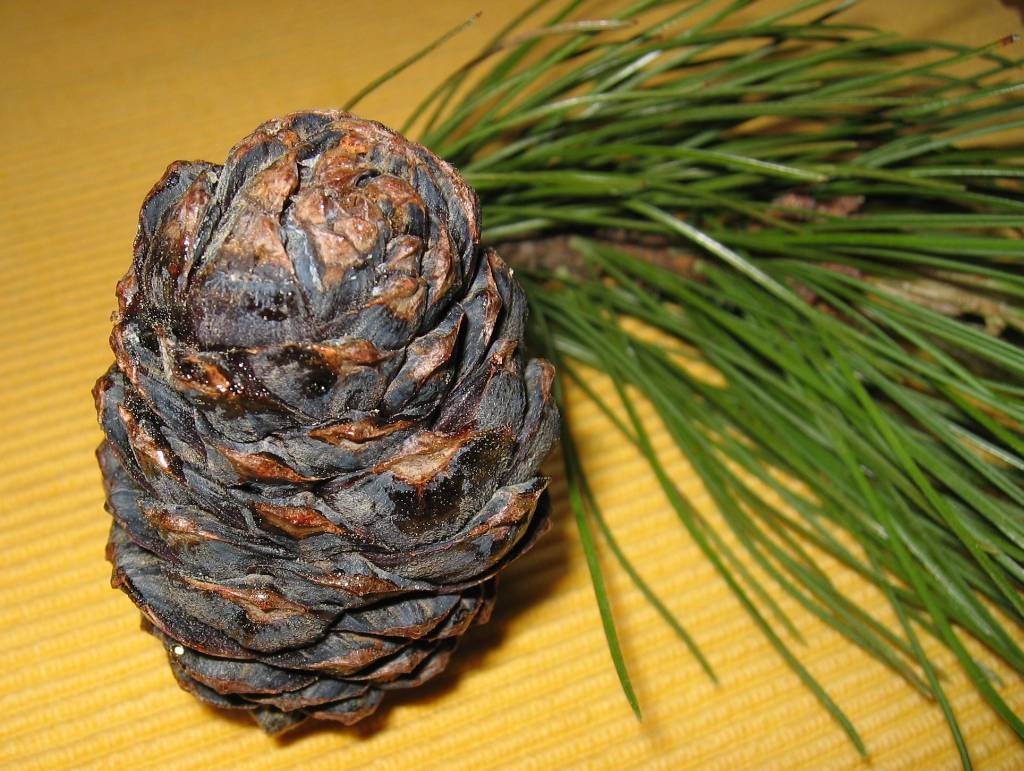 Swiss Pine (Pinus cembra) cone and foliage, originally harvested south of Hochmölbing, Totes Gebirge, Austria.